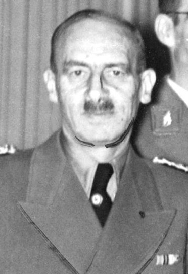 Secretary of State at the Reich Ministry of Economy Wilhelm Keppler, Wehrmacht Artillery General Karl Becker, Secretary of State Ernst Wilhelm Bohle, Soviet Ambassador to Berlin Aleksander Szkwarcew, People's Commissar of the USSR Ivan Fedorovich Tewossjan, Ambassador of the Third Reich Ritter, Rear Admiral Karl Witzell.